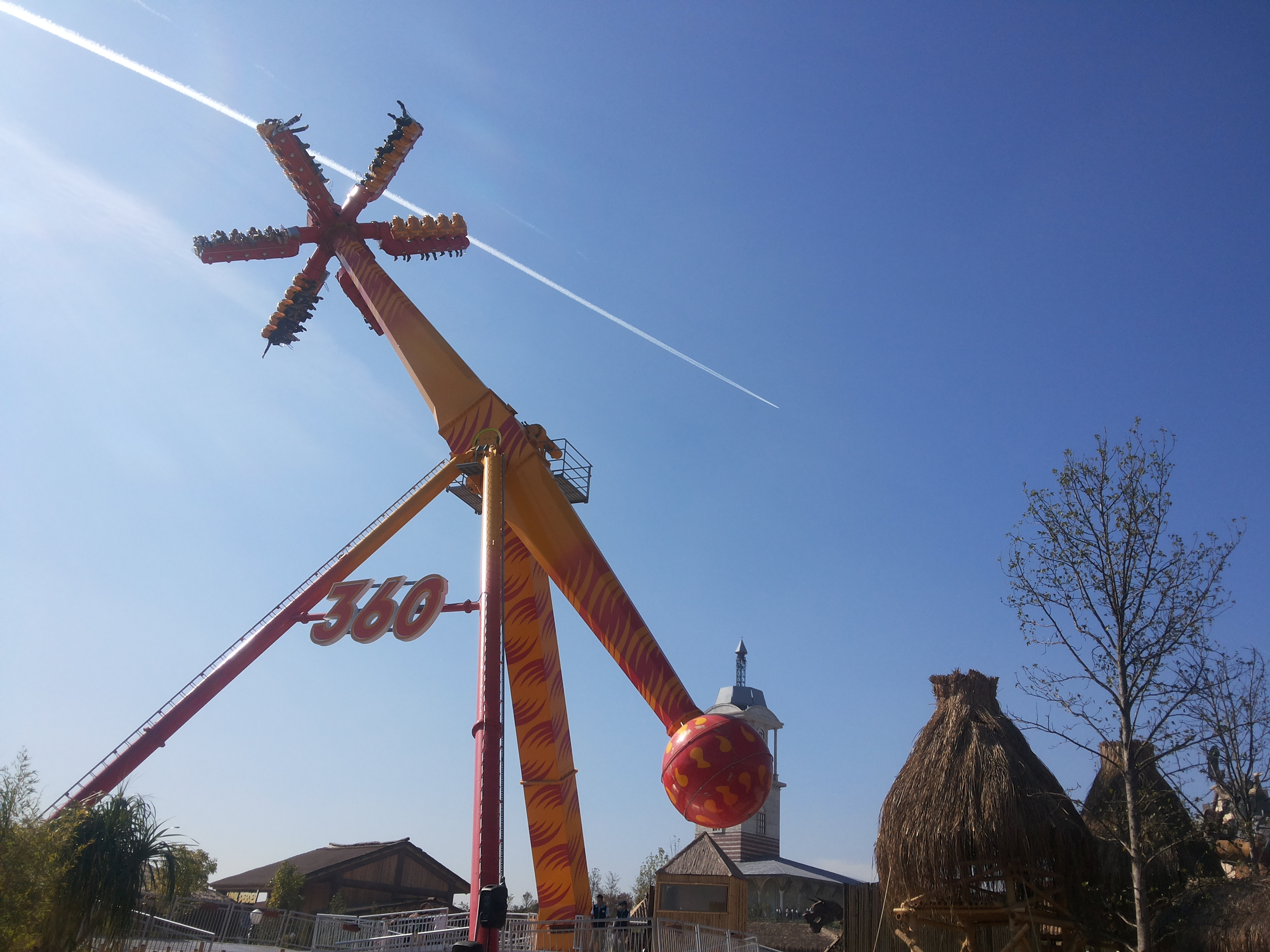 Vialand Theme Park, Istanbul, Turkey.